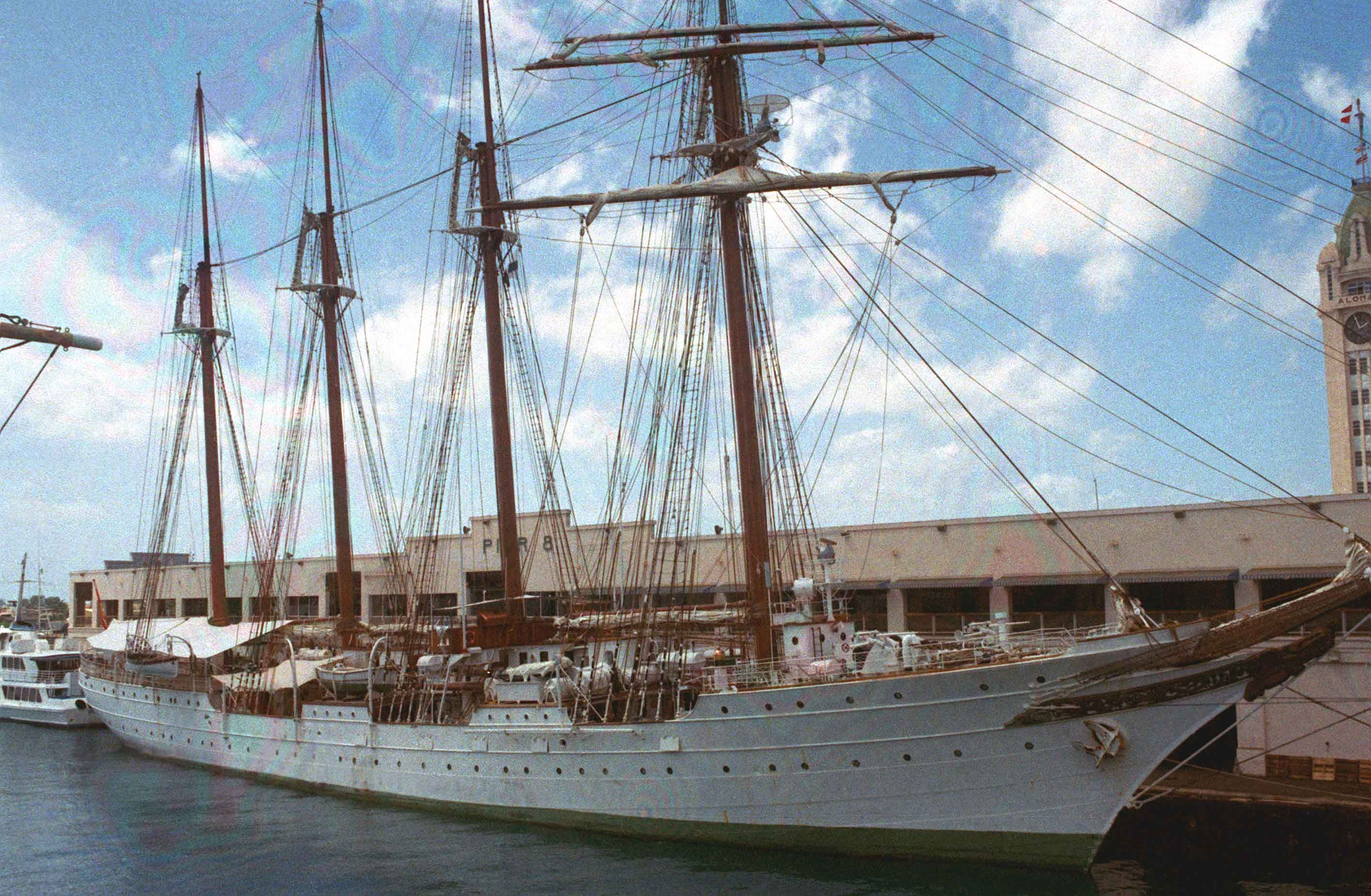 A starboard bow view of the Spanish navy's sail training ship Juan Sebastián Elcano moored at a pier.